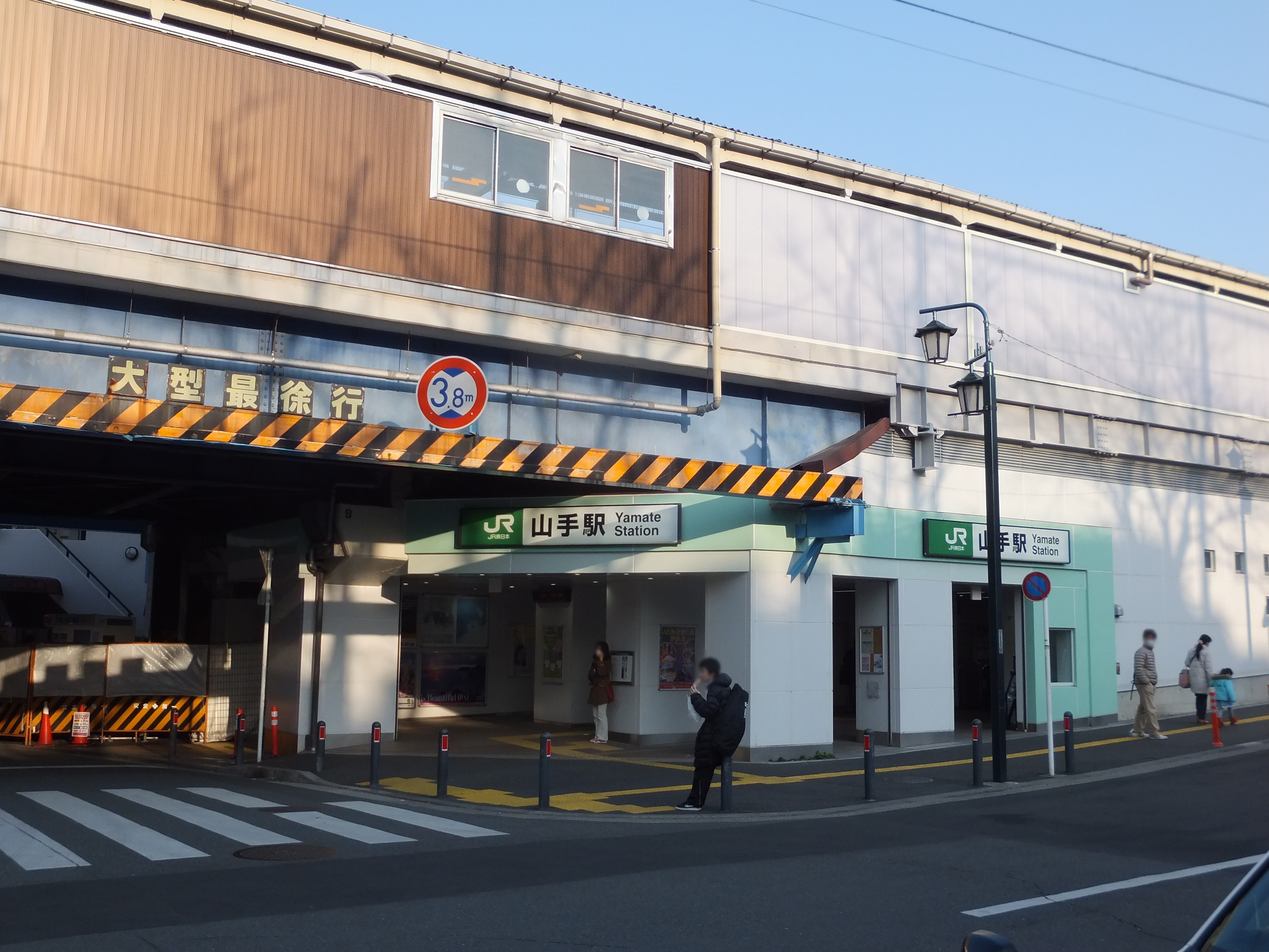 Yamate Station on the Negishi Line, Yokohama, Japan